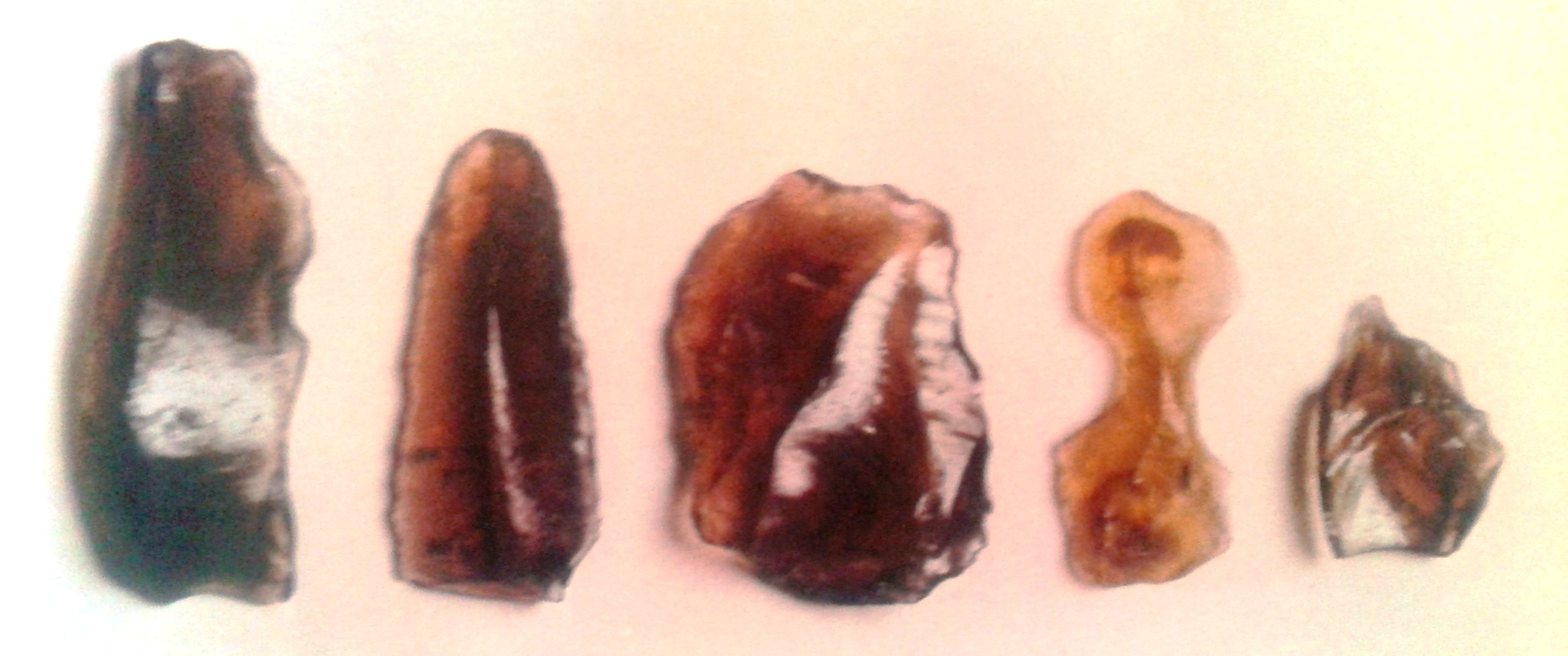 Obsidian tools from El Inga site